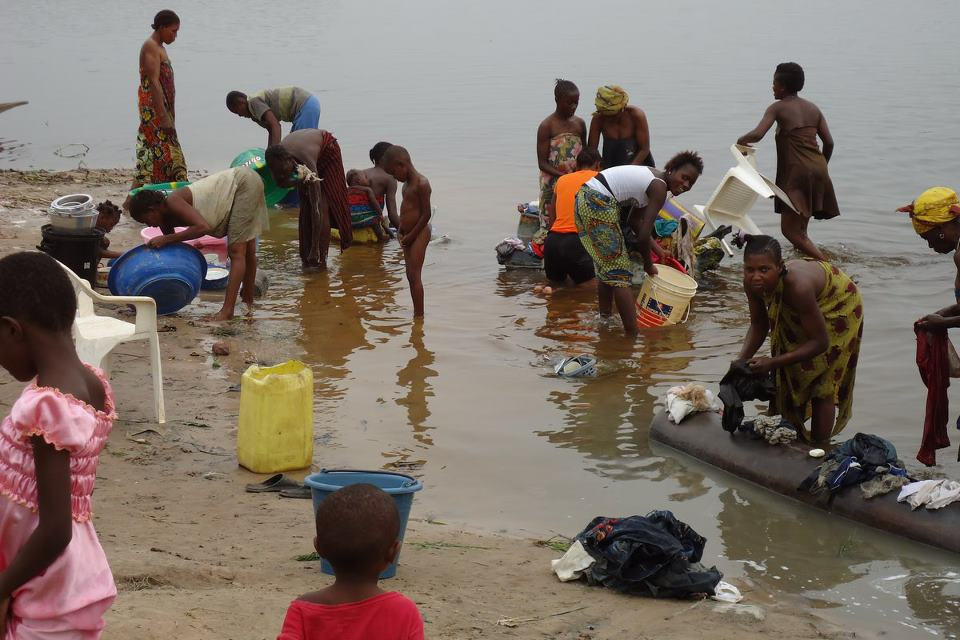 The Congo River is also people's main source of water for drinking, cooking and washing. Conditions like this are perfect for the transmission of cholera and water-borne diseases. Photo: Oxfam